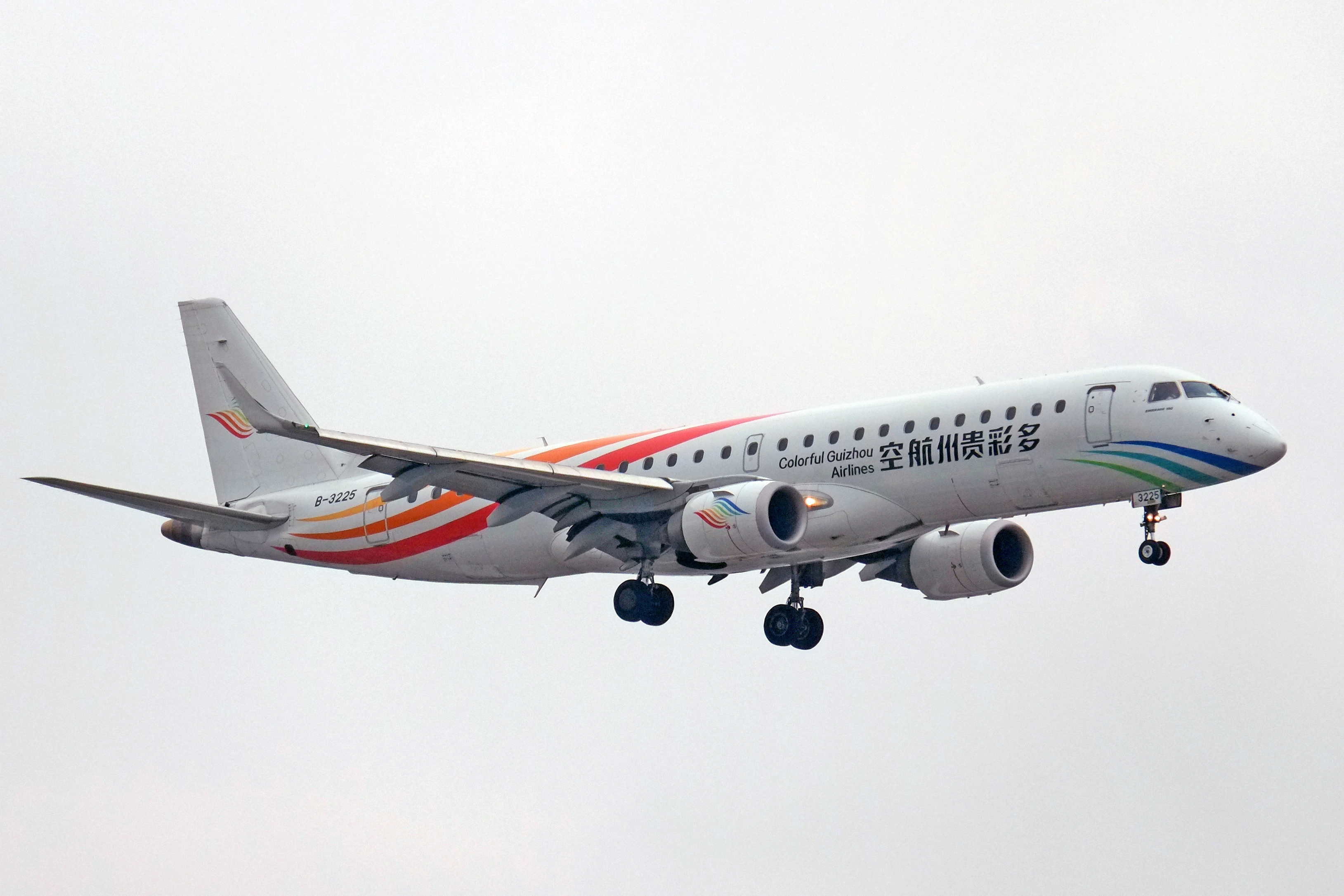 GY7153 KWE-DAX-CGO